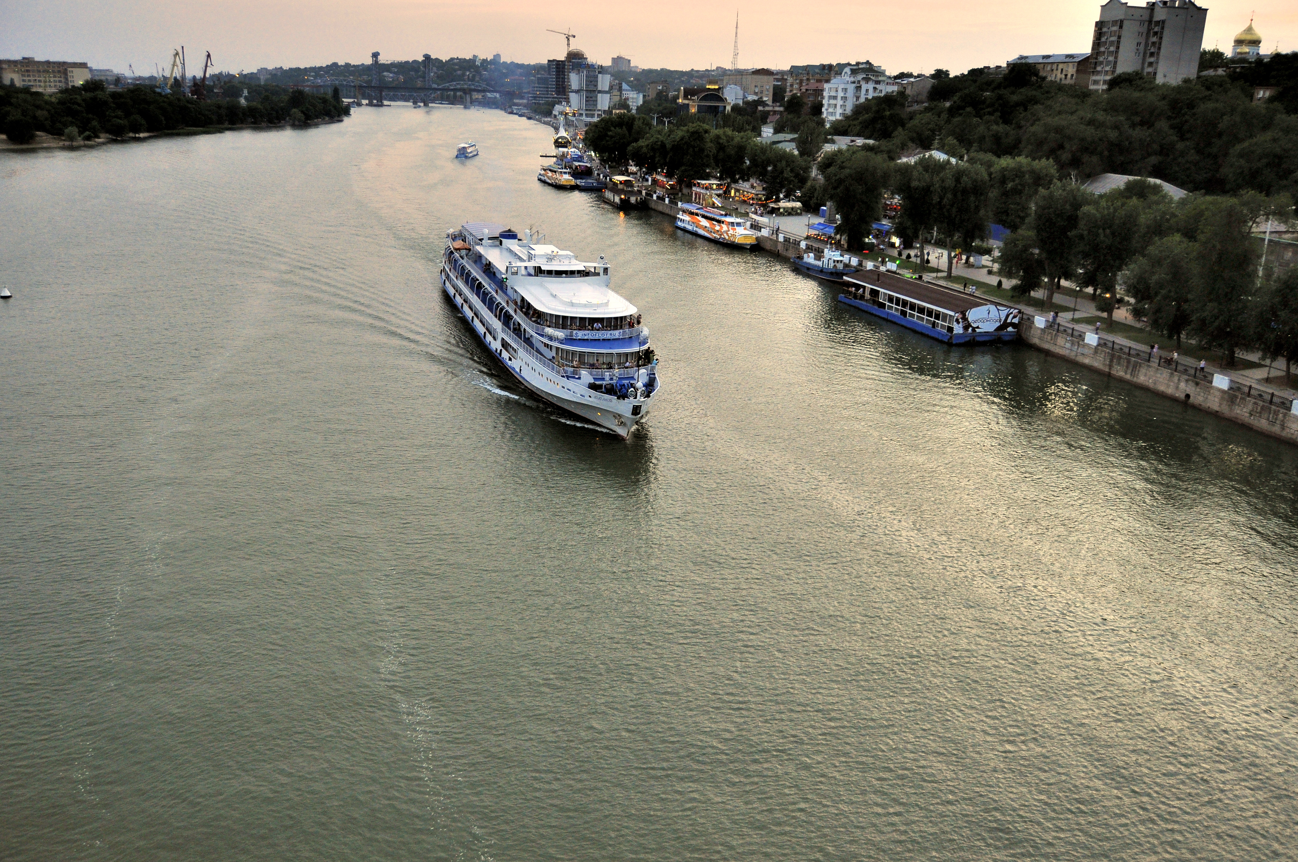 Don river in Rostov-on-Don, Russia